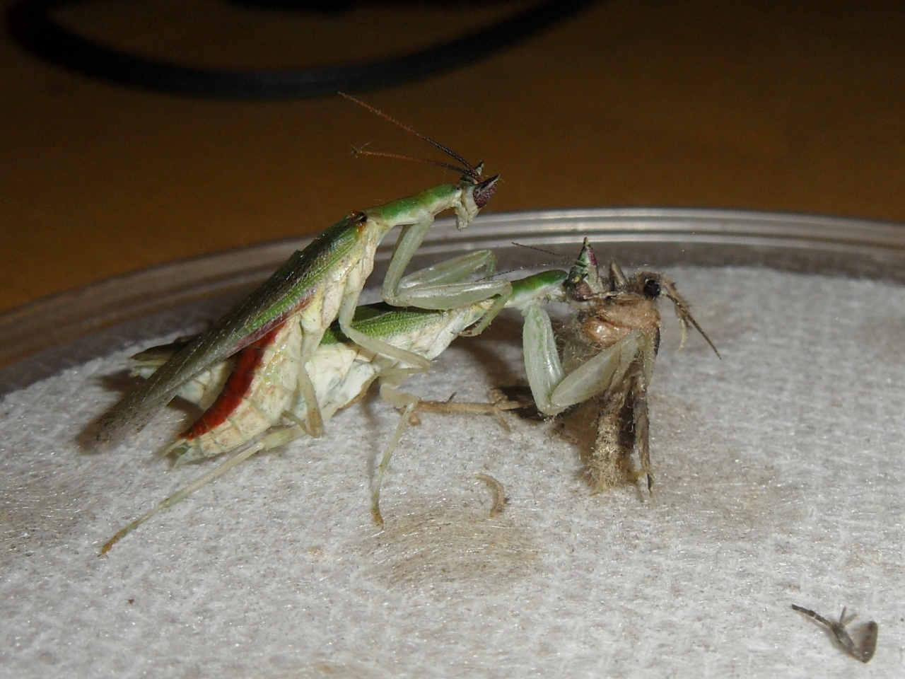 Mating pair of Gambian Spotted-eye Flower Mantis